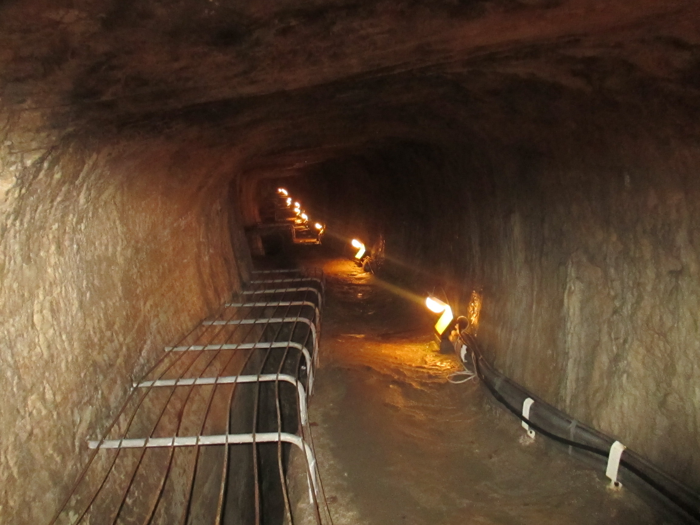 Tunnel of Eupalinos (Eupalinian tunnel), Pythagoreio, Samos, Greece.